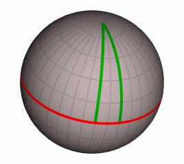 Illustration produced for Introduction to general relativity to illustrate how lines of longitude that start out parallel at the equator converge at the pole.